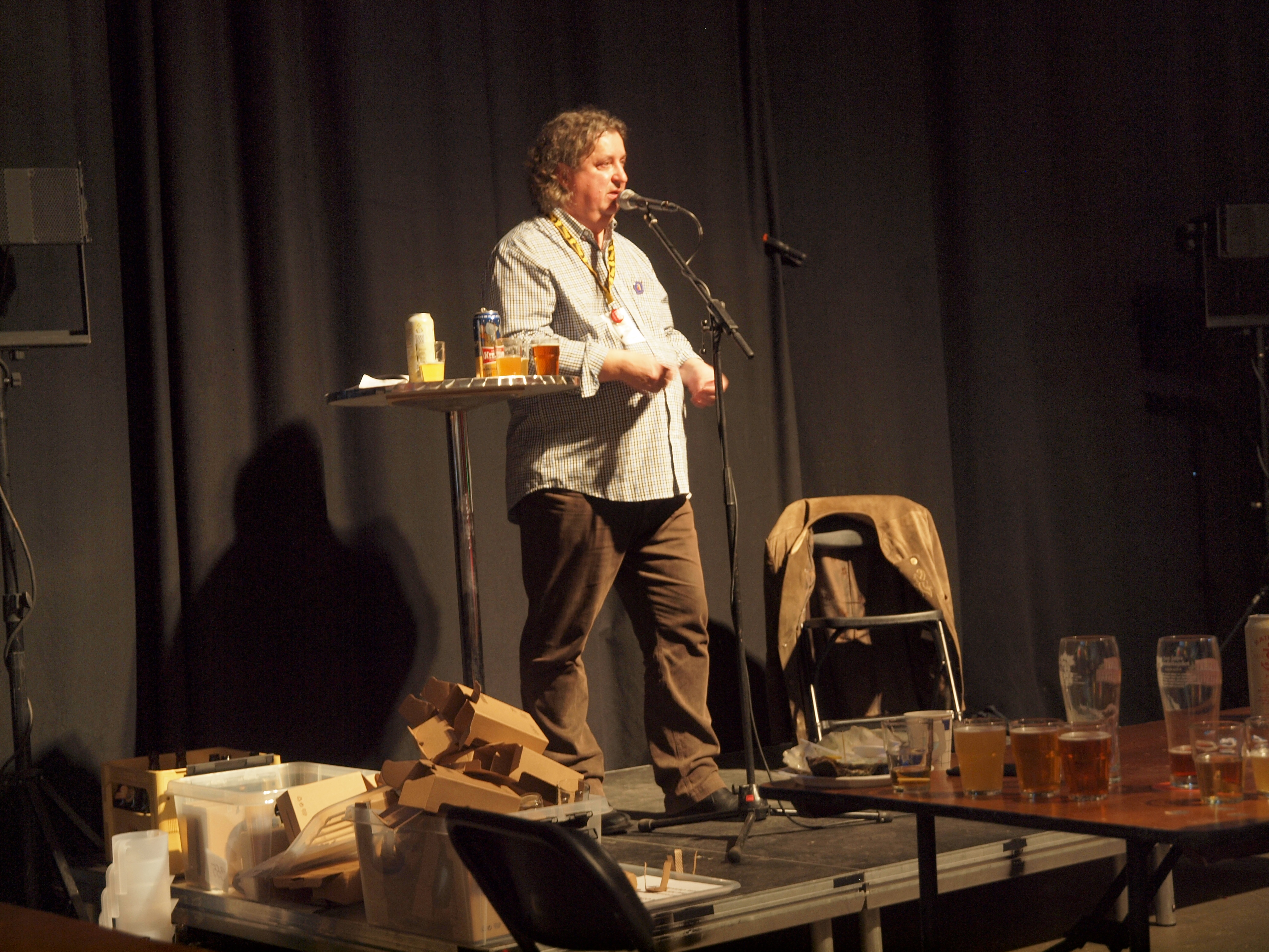 Heikki Kähkönen, the president of the Finnish Beer Association, hosting a beer tasting event at the Helsinki Beer Festival 2016 at Kaapelitehdas in Ruoholahti, Helsinki, Uusimaa, Finland.